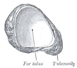 FIG. 277– The left navicular. Postero-medial view.